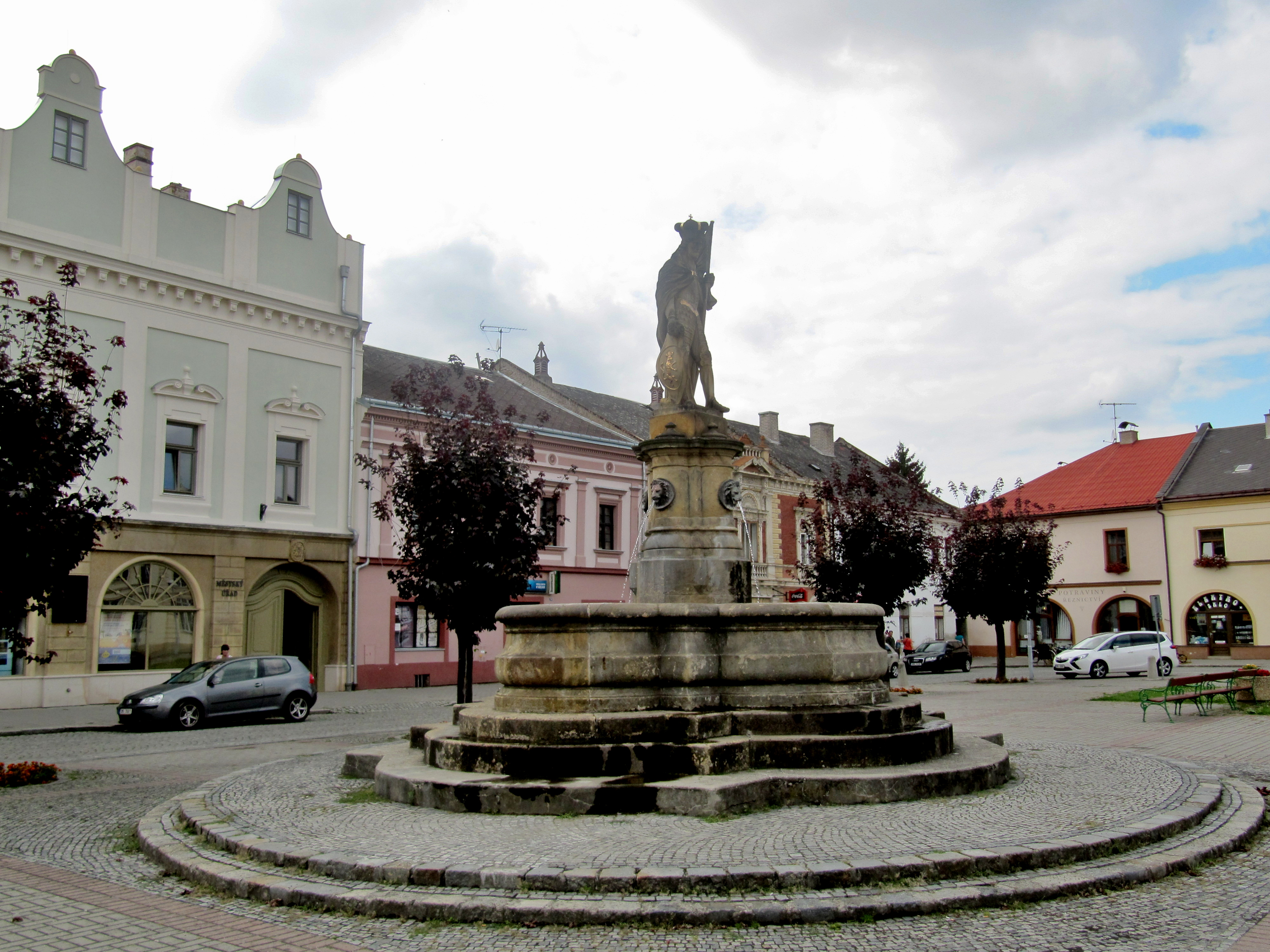 Tovačov, Přerov District, Czech Republic. Square.